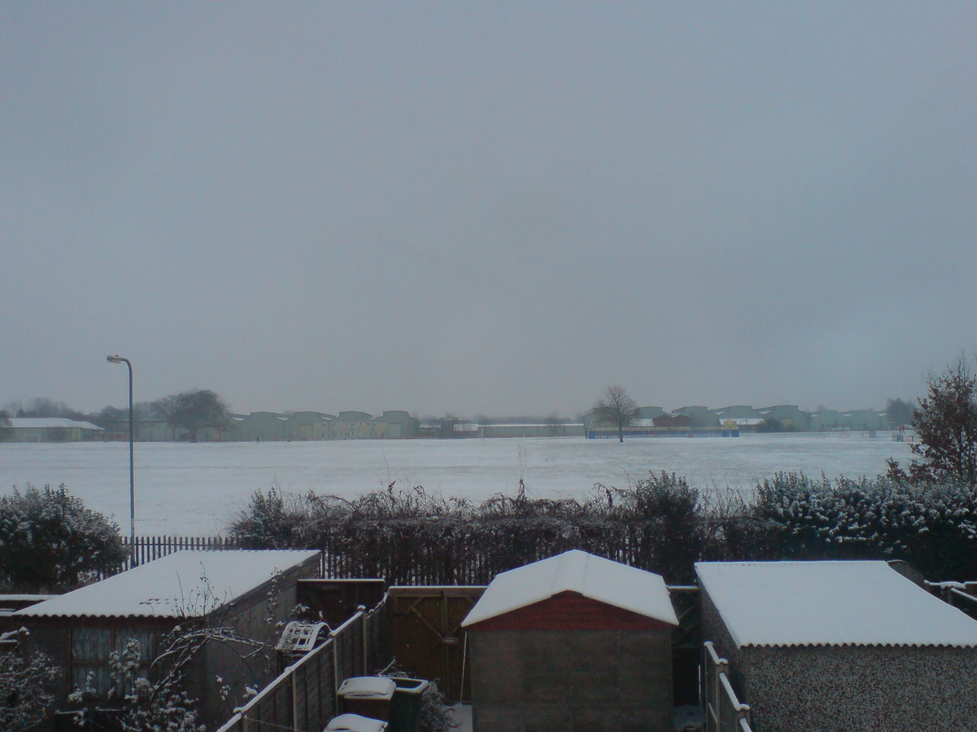 Another pic of the snow covered backyard